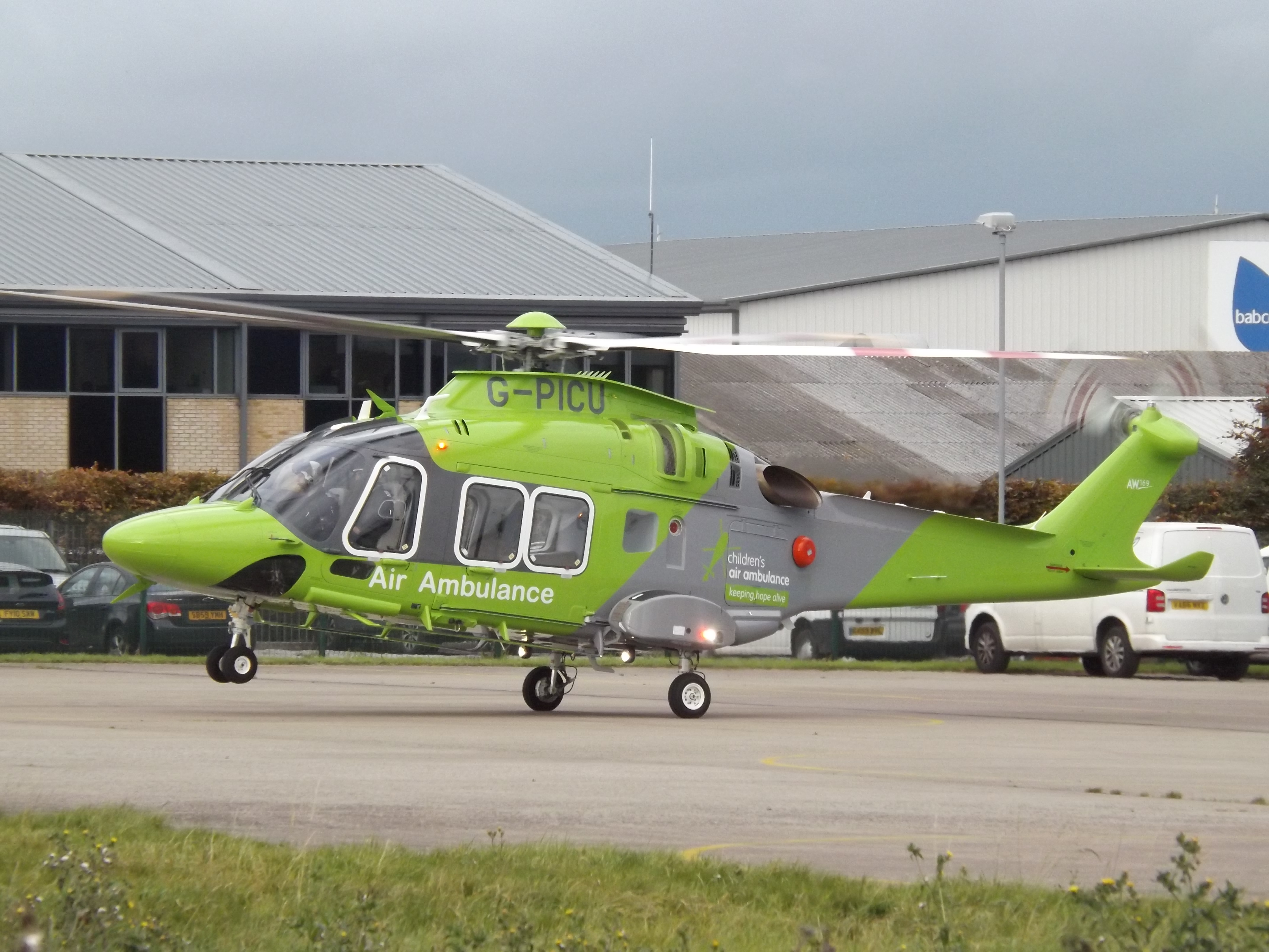 At Gloucestershire Airport.